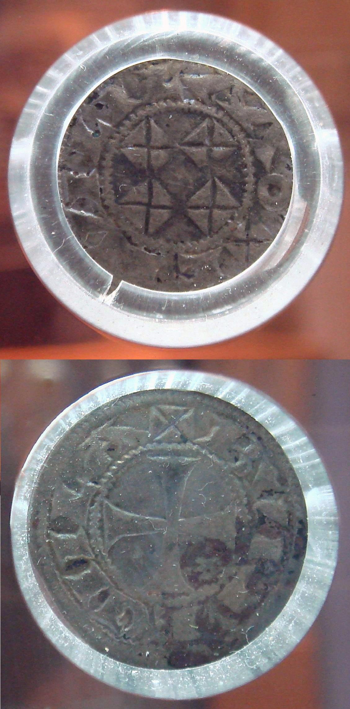 Guillaume_X_Duc_de_Bordeaux_890mg